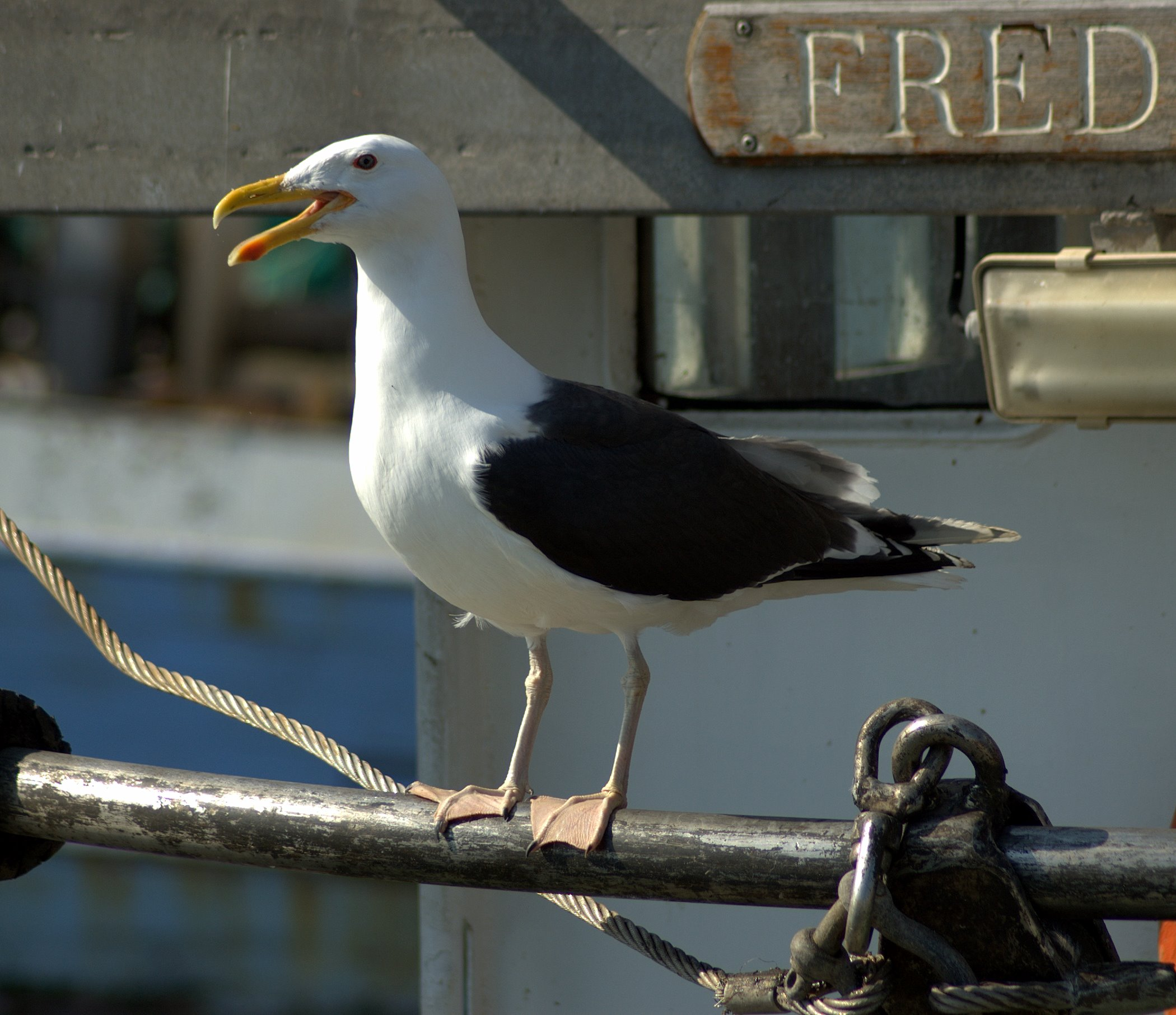 This is a great black-back gull (Larus marinus). In Swedish it's called Havstrut. This particular specimen was photographed in the harbour of Skagen, Denmark.